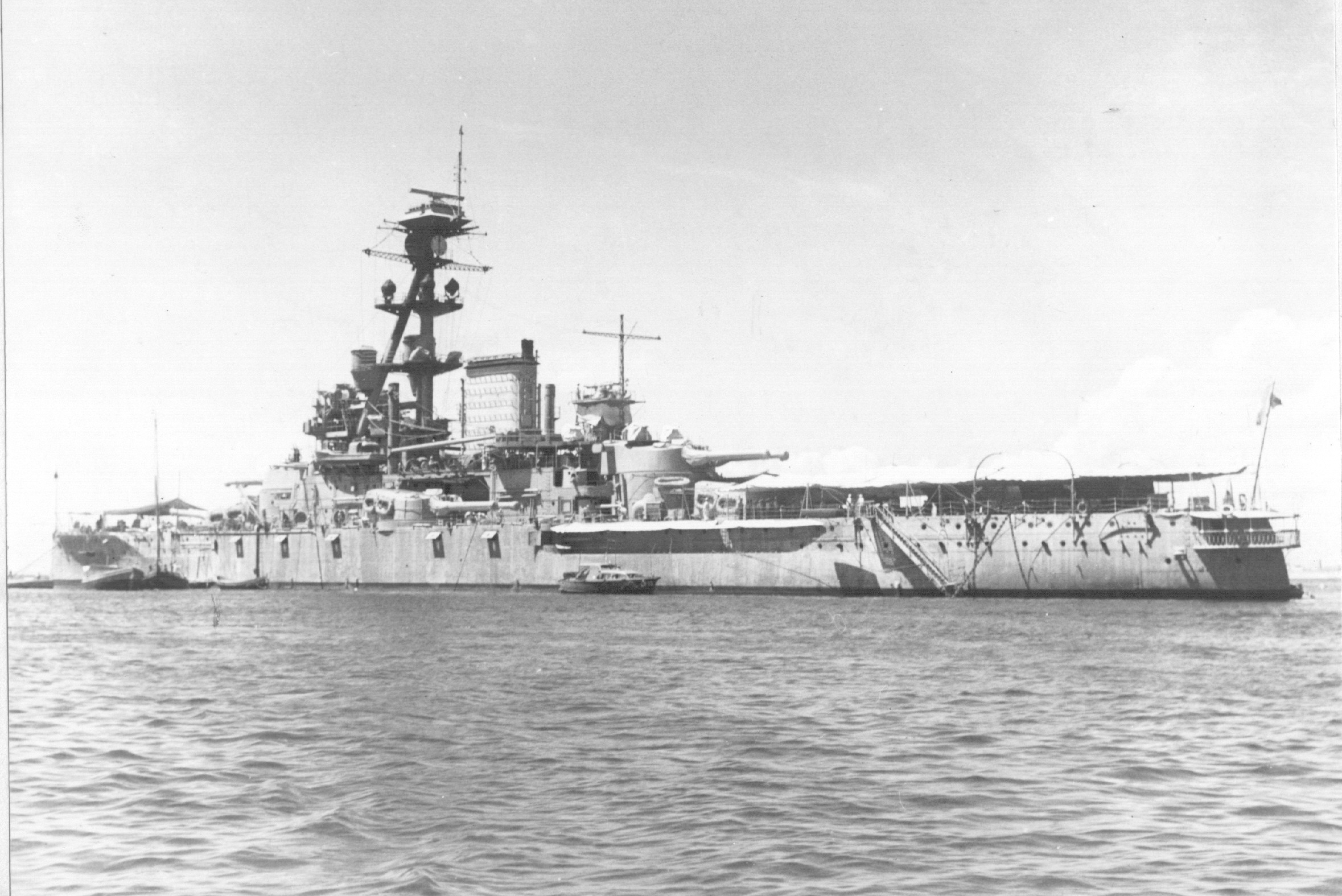 The Brazilian battleship Minas Geraes seen from the stern on the port side.